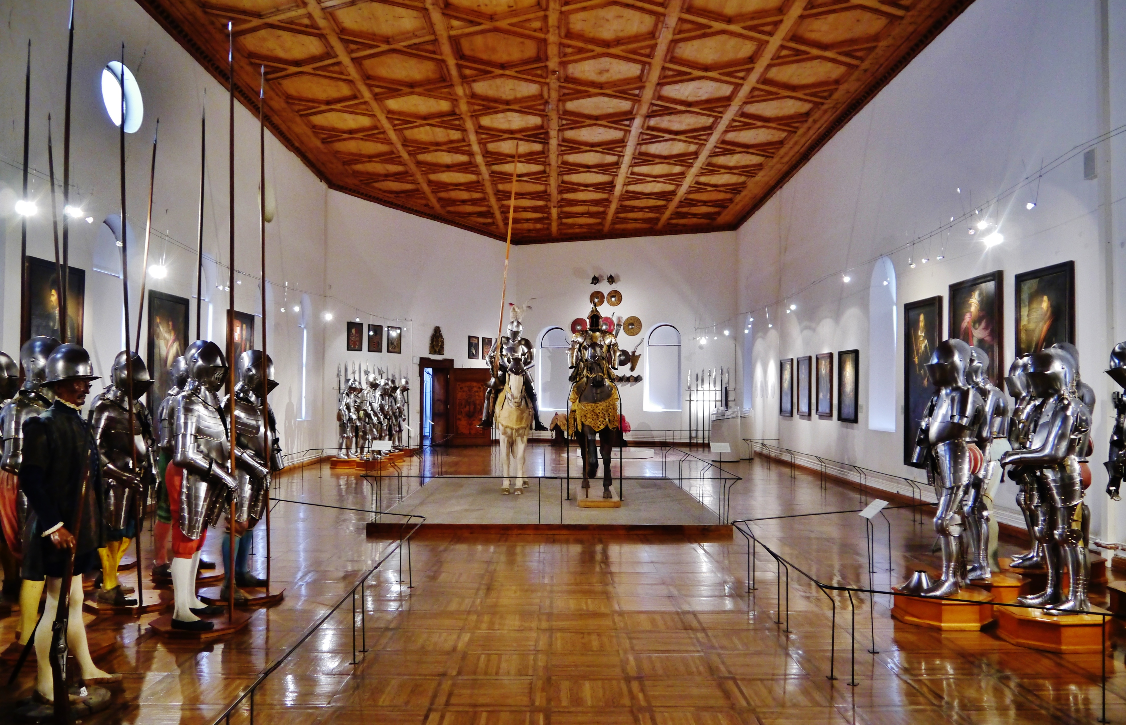 Armoury at Ambras Castle, Innsbruck, Tyrol, Austria